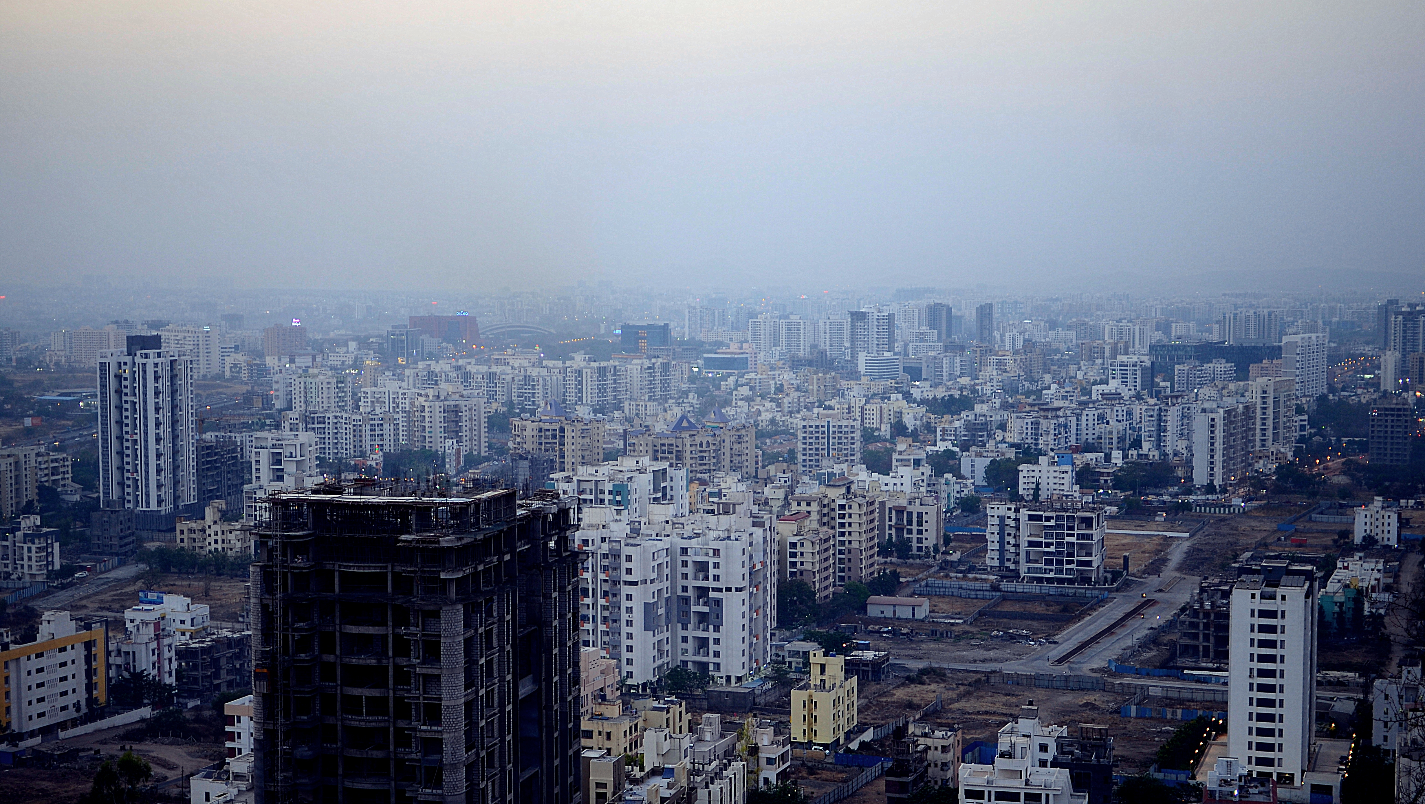 Inner suburbs of pune, includes areas from Baner, Balewadi, Wakad and Hinjewadi at far end.